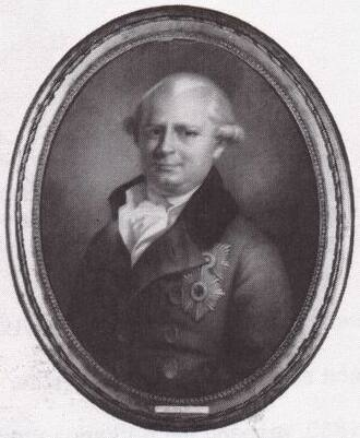 Portrait of Karel Lodewijk van Baden aka Karl Ludwig von Baden aka Margrave Charles Louis of Baden, father of the first Queen of Bavaria